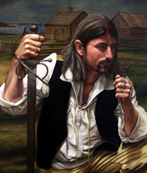 "Joseph Broussard dit Beausoleil in Acadia". Oils on canvas, 30" by 42", 2009. An original artwork depicting the revolutionary Acadian leader in Canada on the eve of his life long struggle for the Acadian people which ultimately lead him to southern Louisiana as the leader of the first group of Acadians to that area.